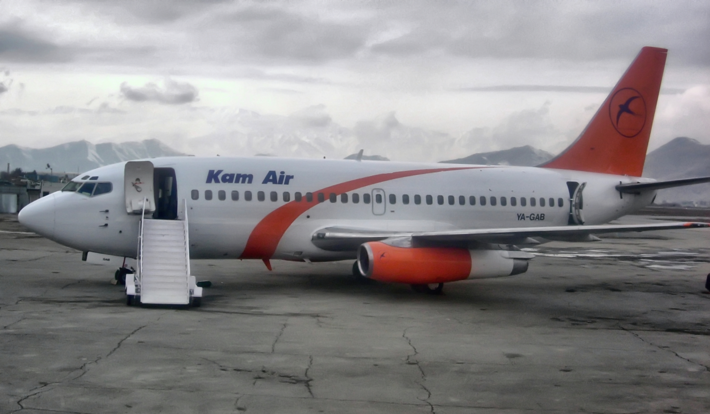 Picture of a Kam Air (YA-GAB) at Kabul Airport. Taken by Srikrishna.